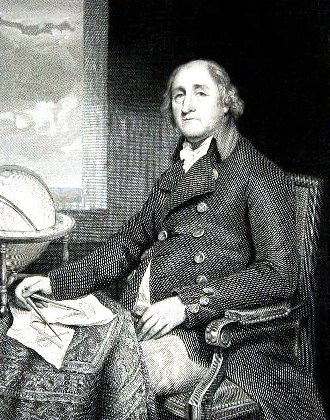 Captn. Joseph Huddart, F.R.S. From a Picture in the Possession of Chas. Turner Esqr. (Size of the Picture 4 feet 3 by 3 feet 4) Medium : Copperplate engraving Size : [Plate] 23 x 28 cms. Date of Publication : 1802 cropped and digitally balanced Engraver / Publisher : Engraved by James Stow (1770–1823) DescriptionEnglish engraverDate of birth/death 1770 1823 Authority control : Q6143734 VIAF: 95857837 ULAN: 500028521 Oxford Dict.: 26610 creator QS:P170,Q6143734 . Published 2nd Novr. 1802 by Laurie & Whittle, Fleet Street and Charles Turner of Limehouse Source : Taken from the Portrait of Huddart by John Hoppner RA painted in 1801 for Huddart's partner and brother-in-law, Charles H Turner. The painting was sold in 1928. A copy by Williams is in the possession of the Institution of Civil Engineers